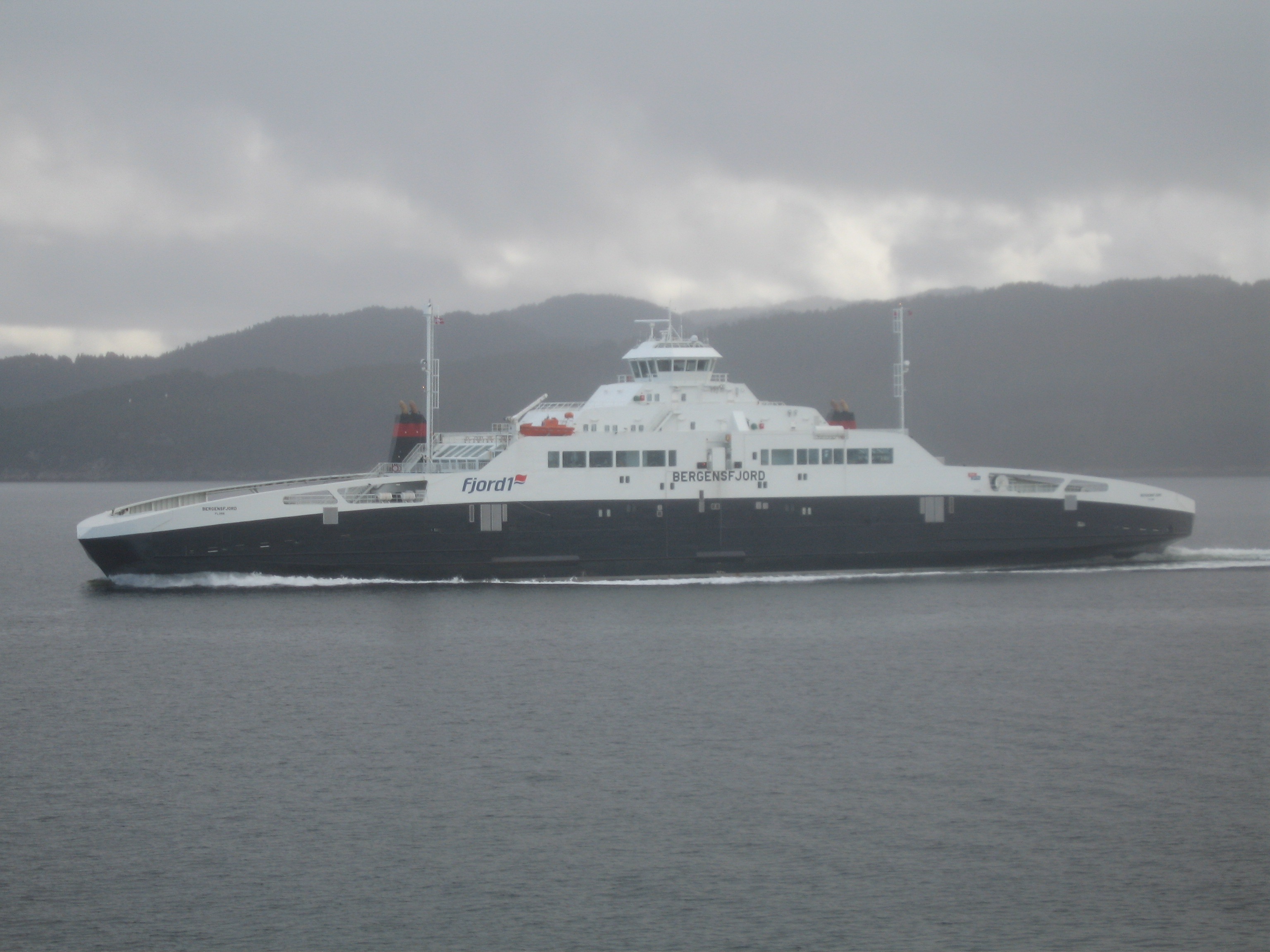 Ferry "MF Bergensfjord" going from Sandvikvåg to Halhjem in Hordaland